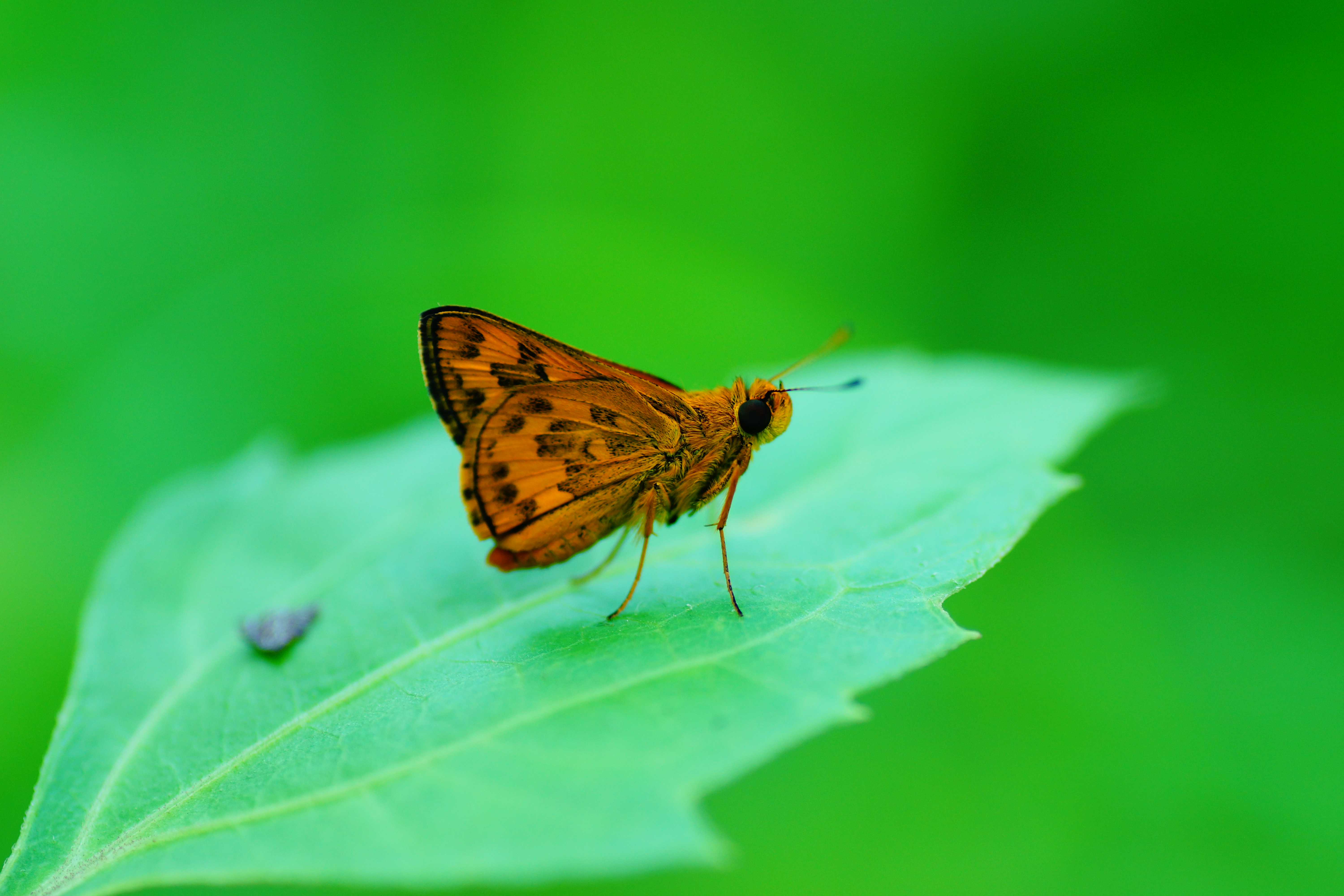 Taractrocera archias